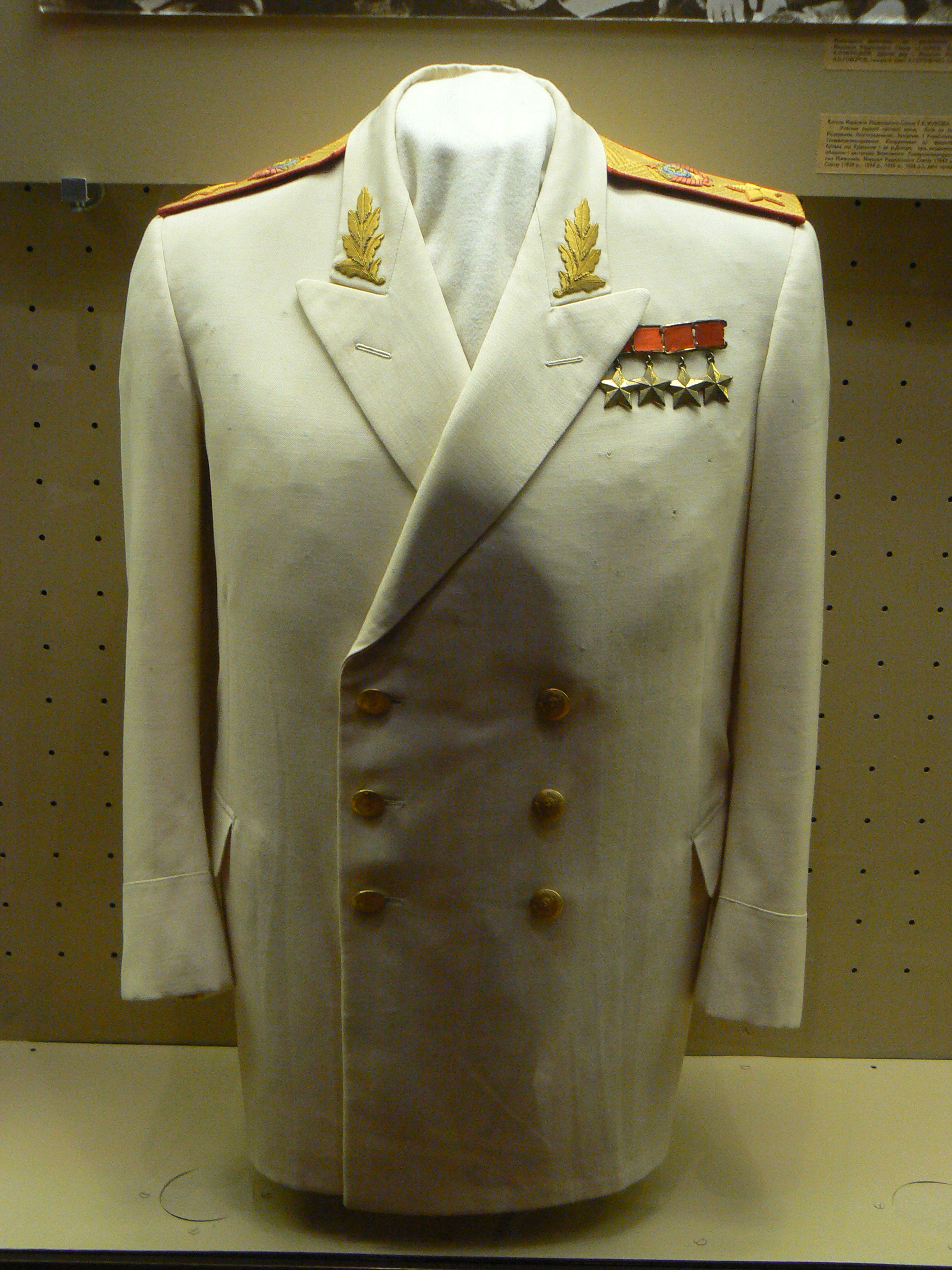 Georgy Zhukov's uniform. National Museum of the History of Ukraine in the Second World War.